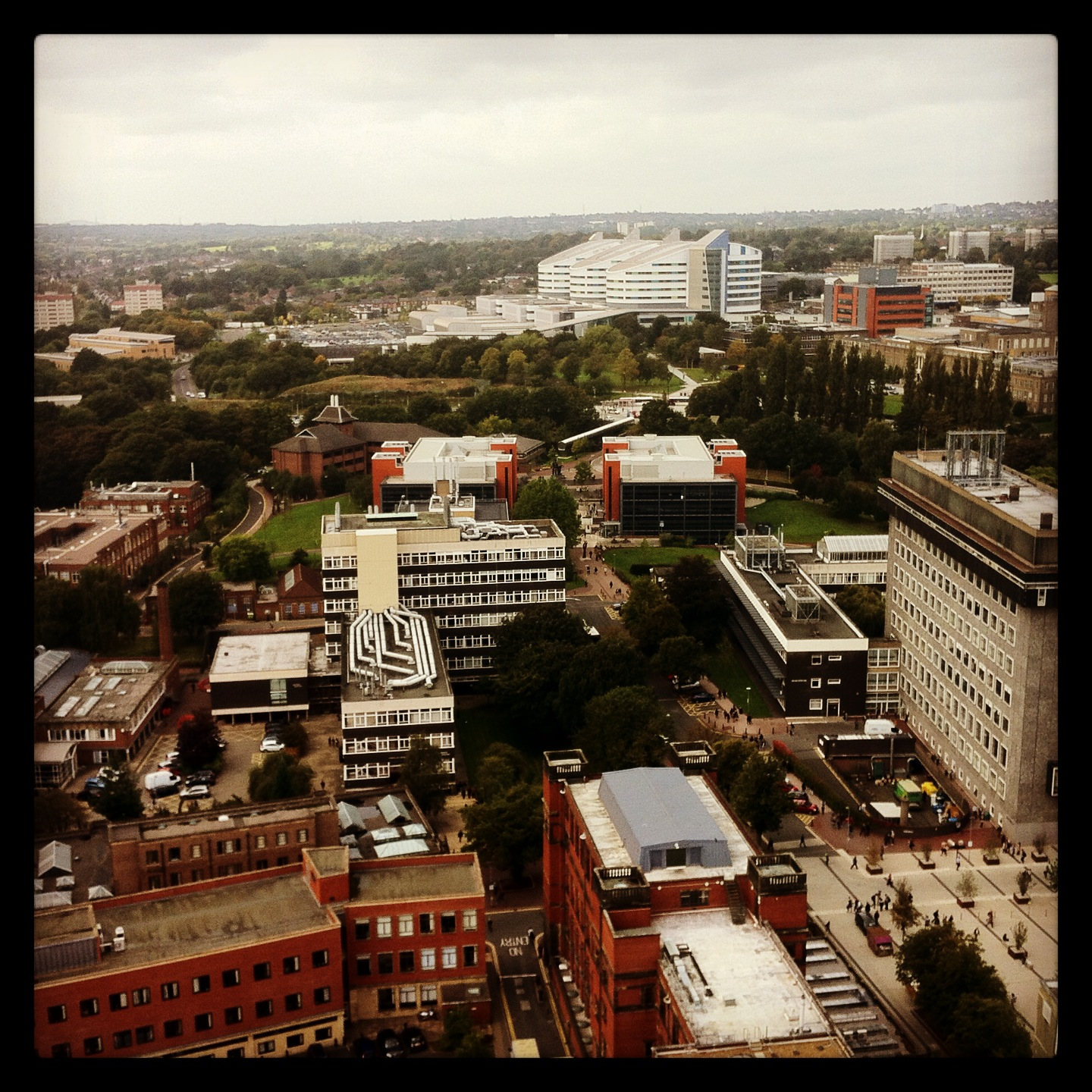 Viewed from the University of Birmingham 'old Joe' clock tower this westerly facing image shows the new Queen Elizabeth hospital.